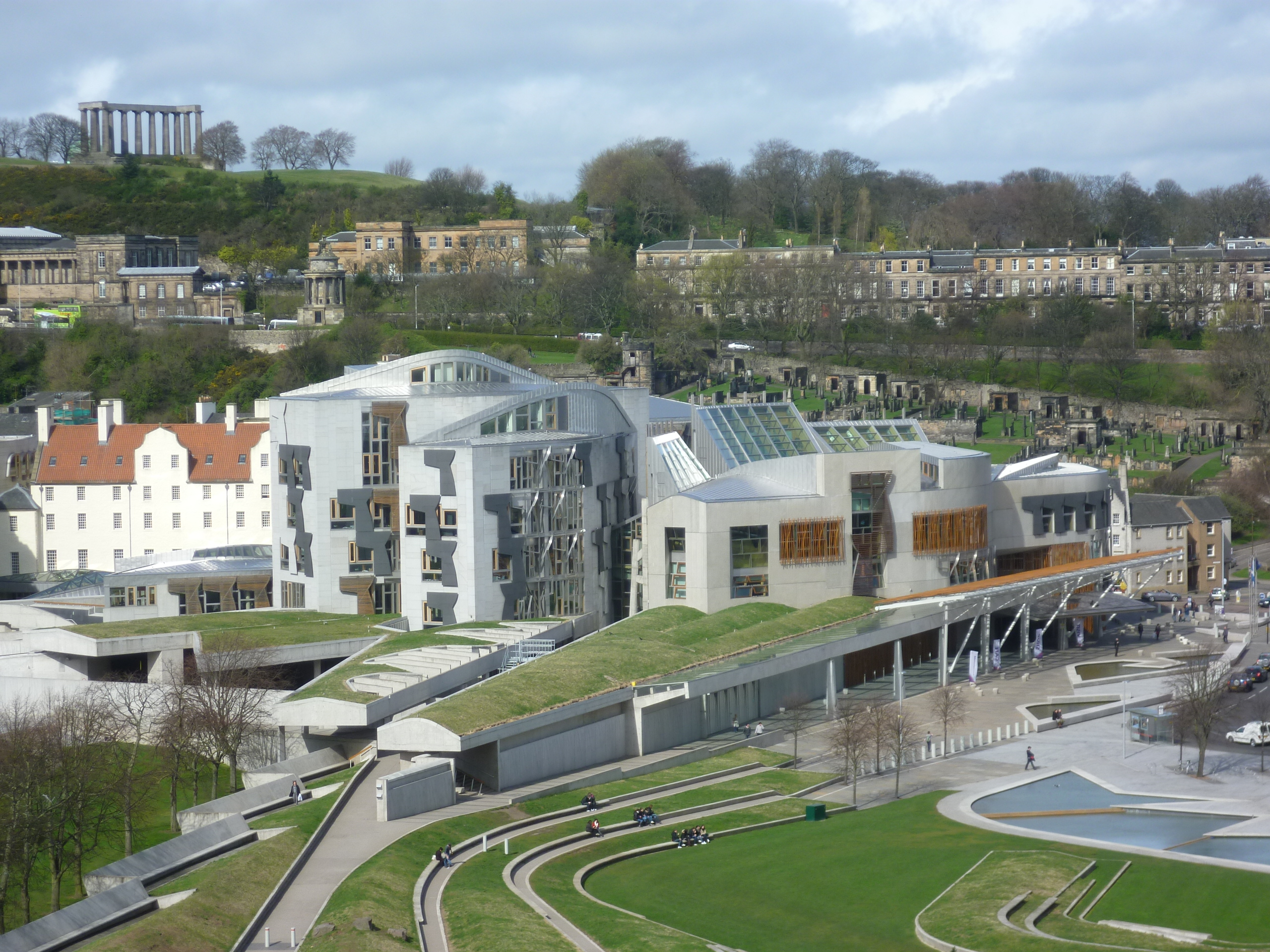 Scottish Parliament building, Holyrood